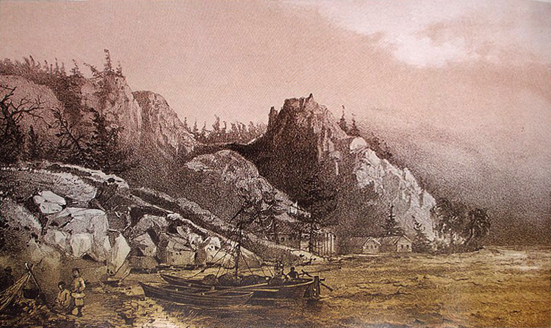 Gold-mine on the western coast of the Baikal sea 1861